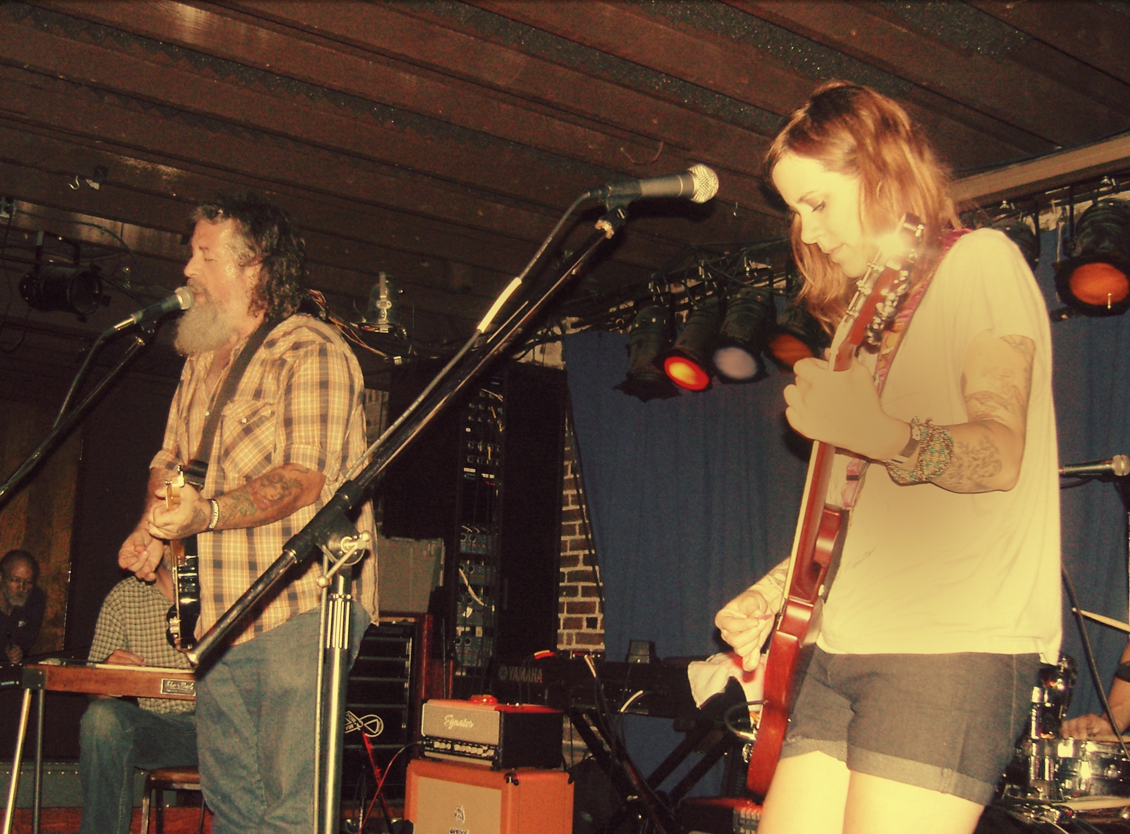 A picture of Wussy, a Cincinnati-based rock band, performing on March 18, 2006. Location unknown.